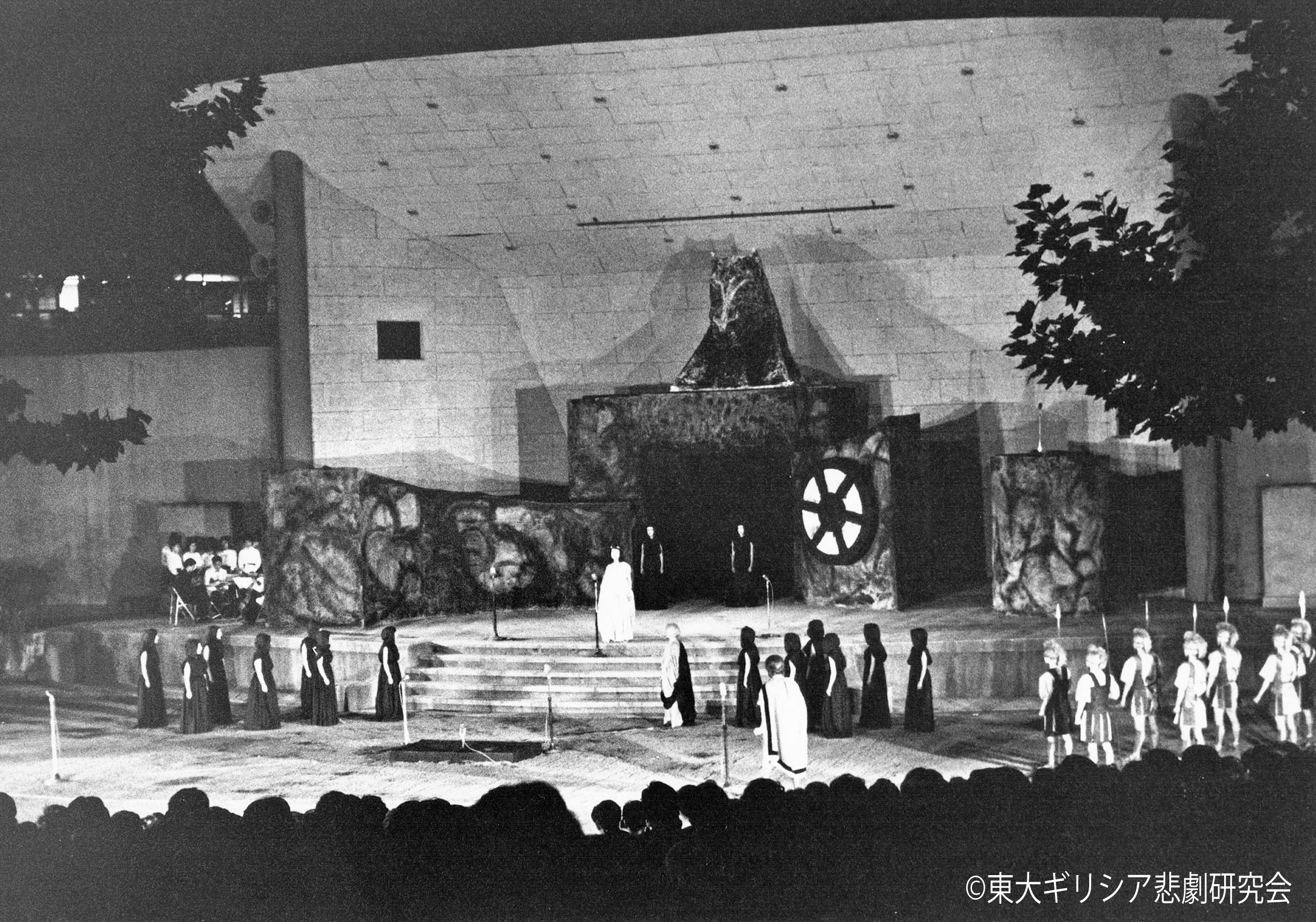 Greek Tragedy 1963 Tokyo University Greek Tragedy Institute-c